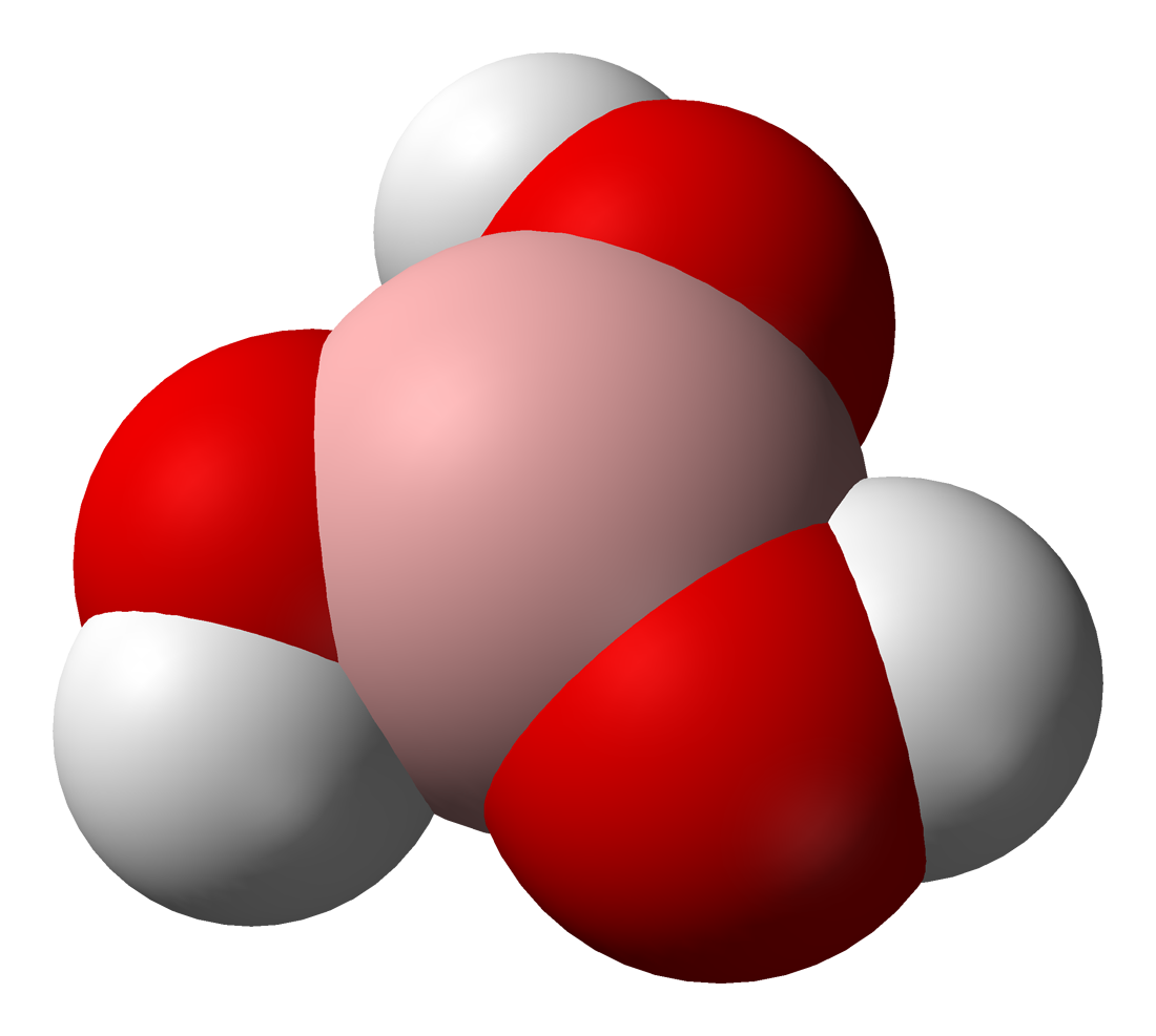 Space-filling model of the boric acid molecule